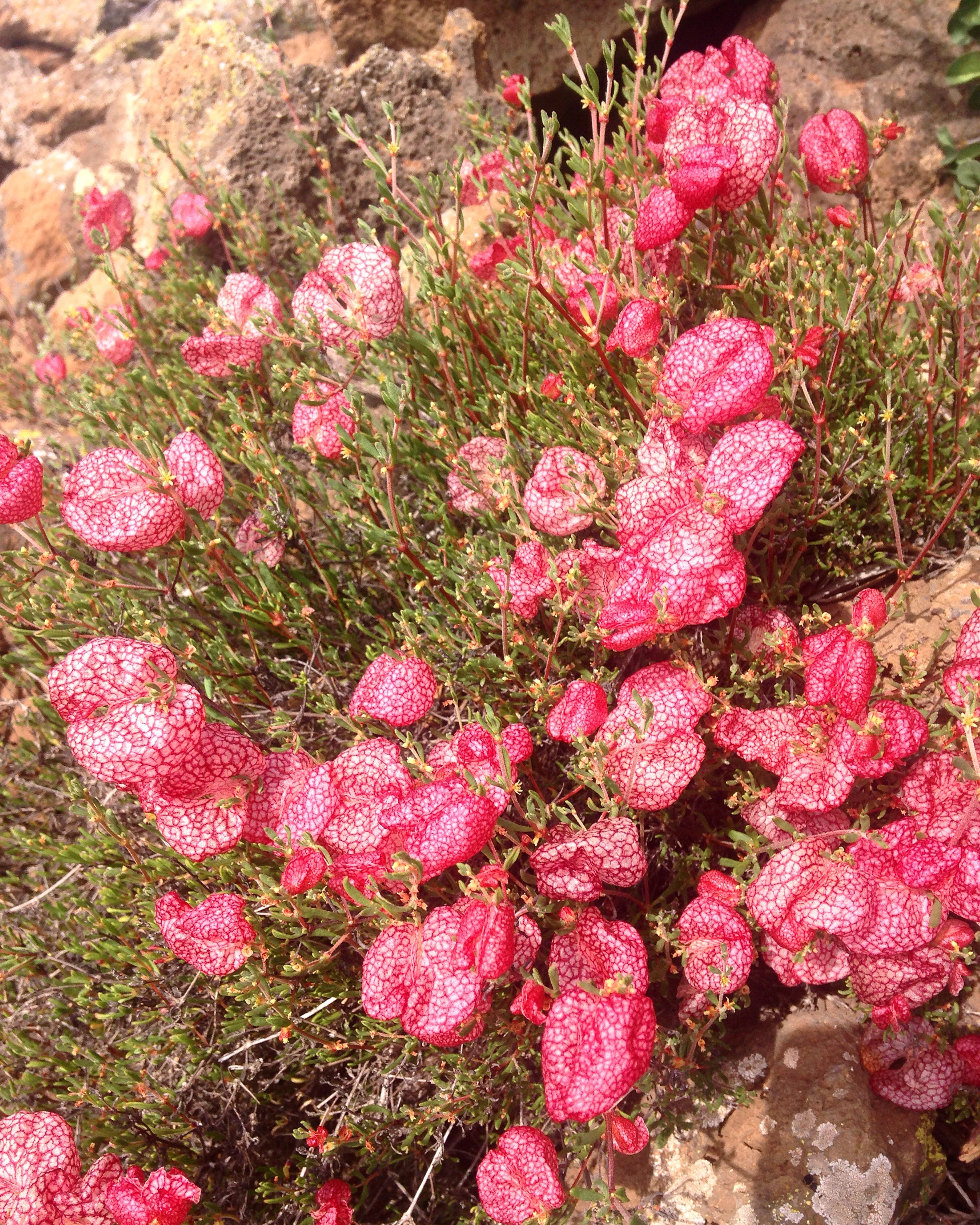 Harfordia macroptera found at San Quintín on Spring 2016.